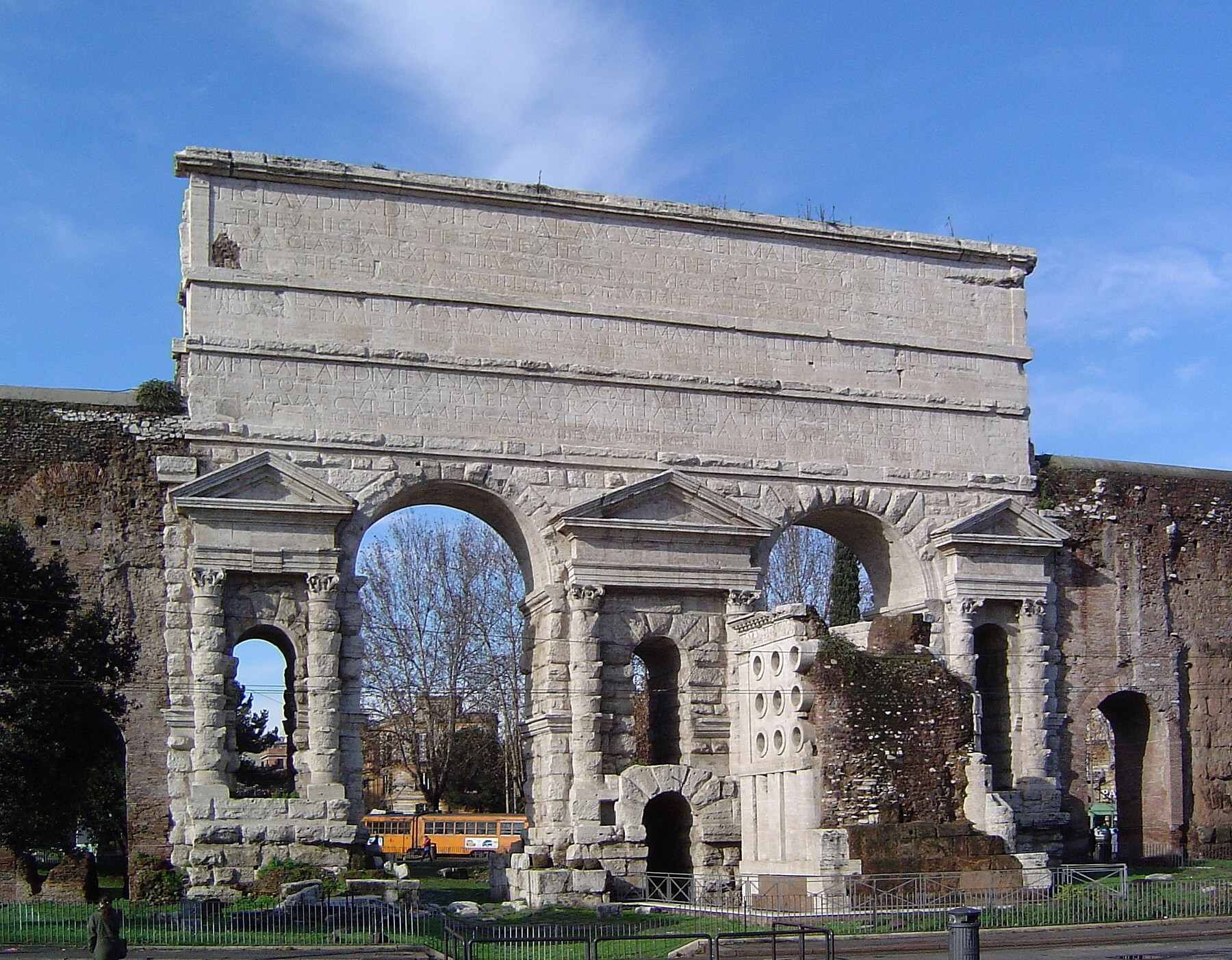 Porta Maggiore, Rome, Italy Made by Joris van Rooden, the Netherlands on 03-01-2006